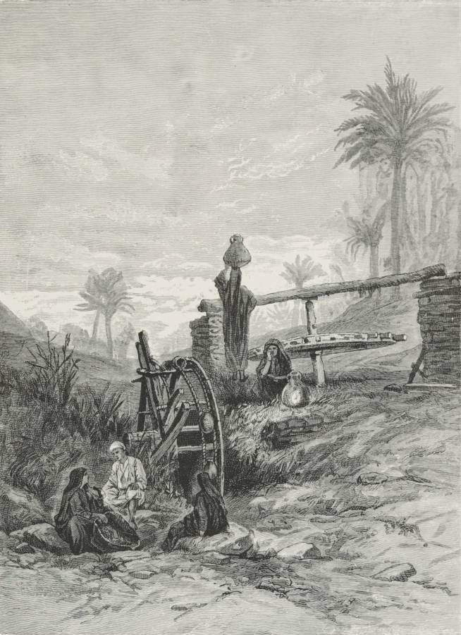 A man and four women sitting next to a water-wheel in the river.